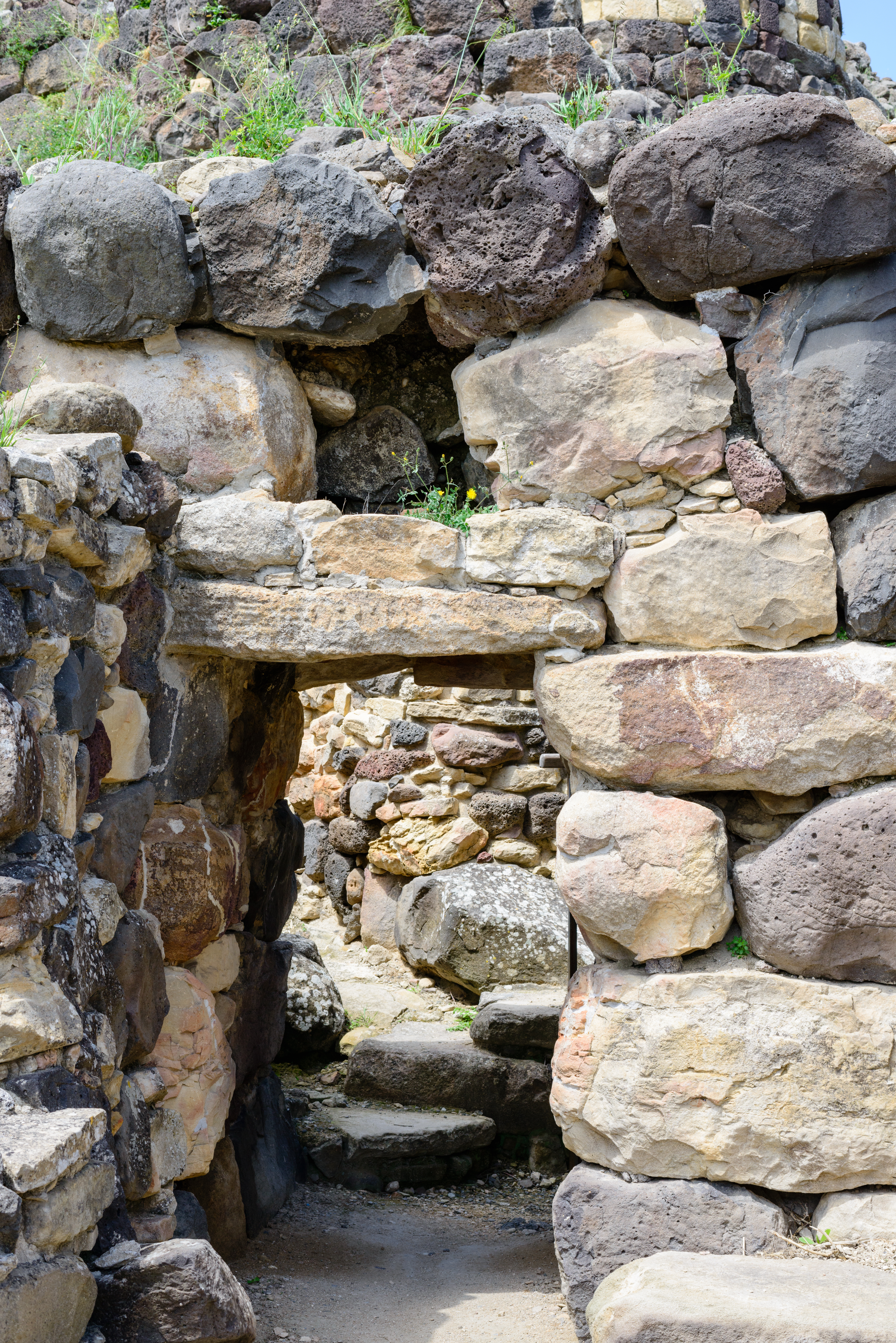 Entrance to one of the outer towers. Su Nuraxi is a nuragic archaeological site in Barumini, Sardinia, Italy. The complex is centred around a three-storey tower built around the 16th century BC.